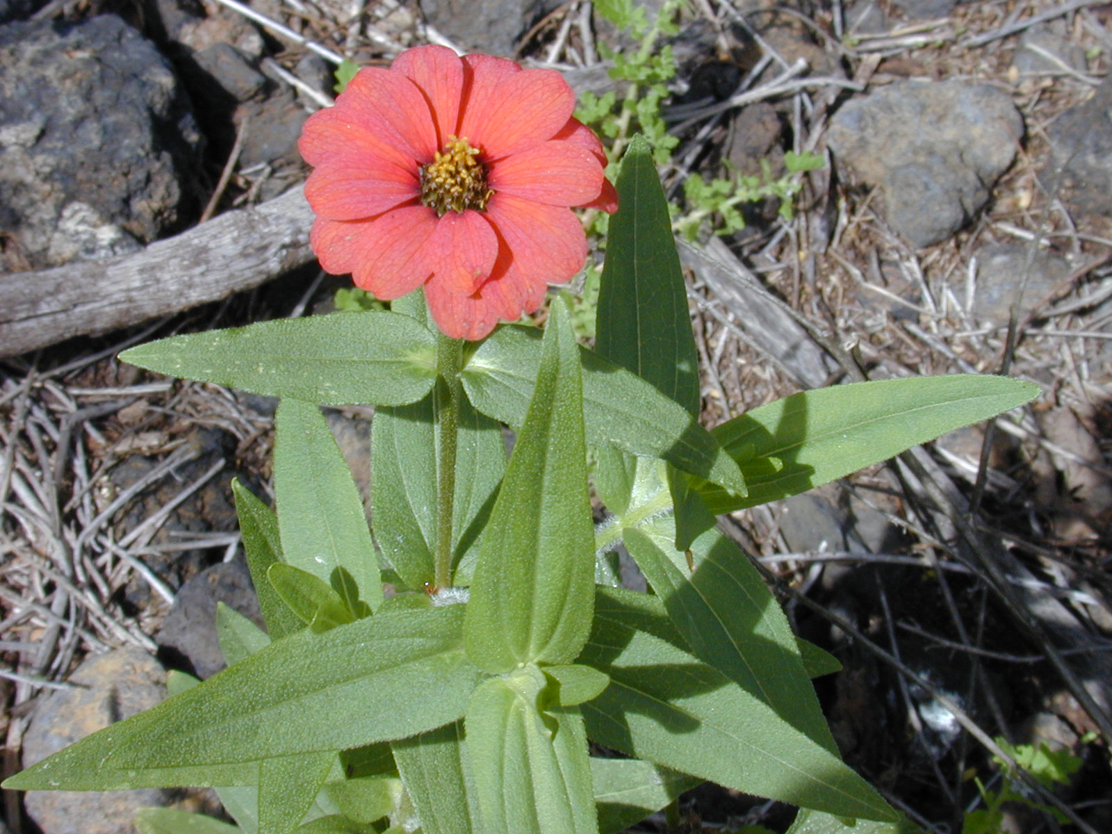 Zinnia peruviana (leaves and flower). Location: Maui, Wailea 670